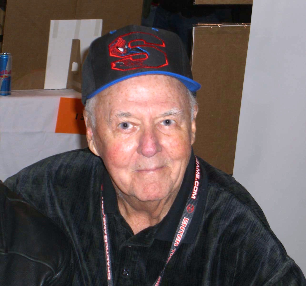 Comic book creator Joe Sinnott at the New York Comic Convention in Manhattan, April 20, 2008. Photographed by Luigi Novi. This photo is not in the public domain. It may, however, be used, modified and published for any purpose, only if an easily visible credit to the photographer is placed near the photo in each instance in which it is used. (See licensing information below.) Publication of this photo without this proper attribution constitutes copyright infringement. For more information on my photos, you can contact me here.